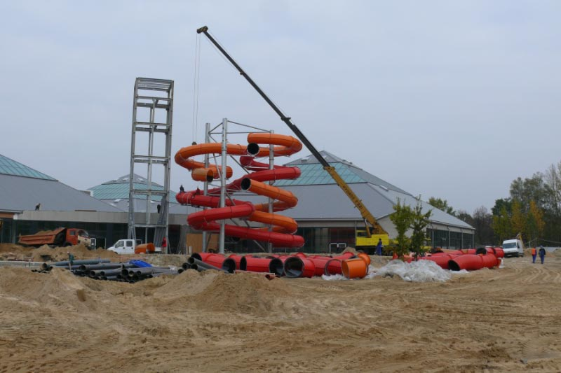 Aquapark Fala Łódź